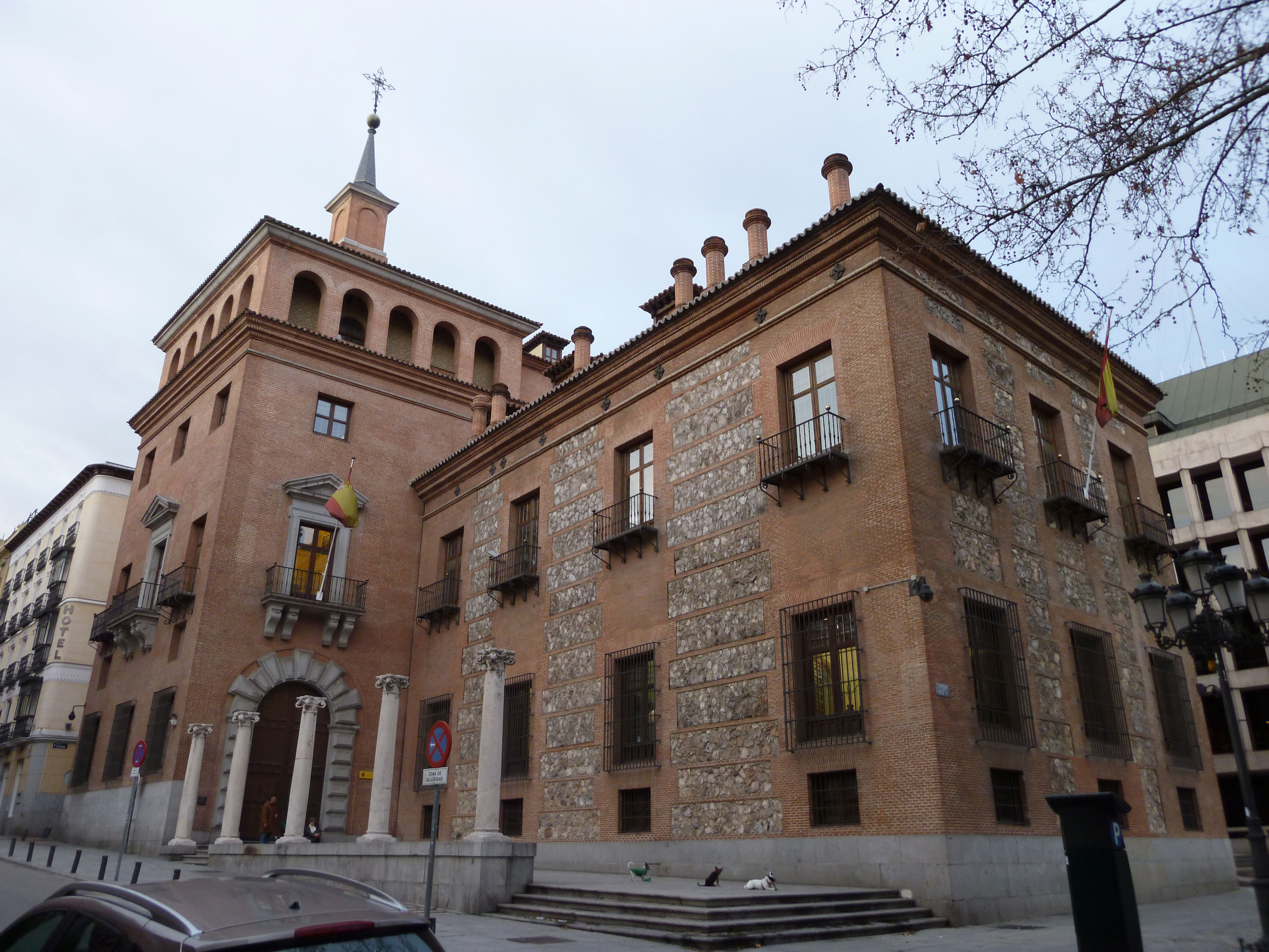 View of Casa de las Siete Chimeneas (literally "House of the Seven Chimneys") in Madrid (Spain) from the south-east angle.